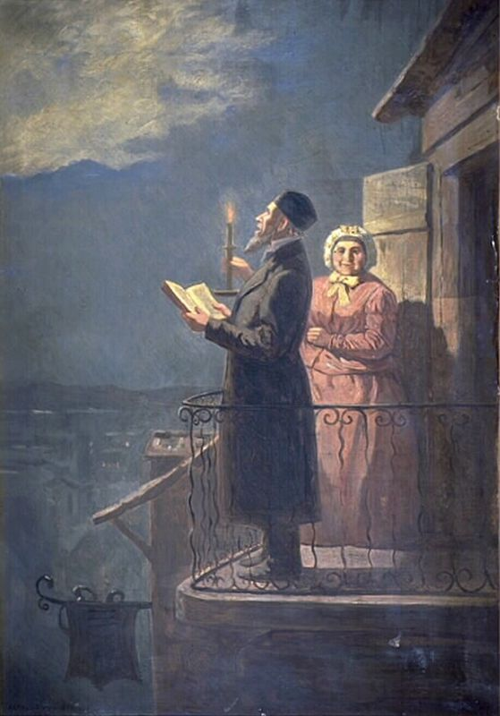 "Evening prayer", Alphonse Levy (1883) - Musée d'art et d'histoire du Judaïsme